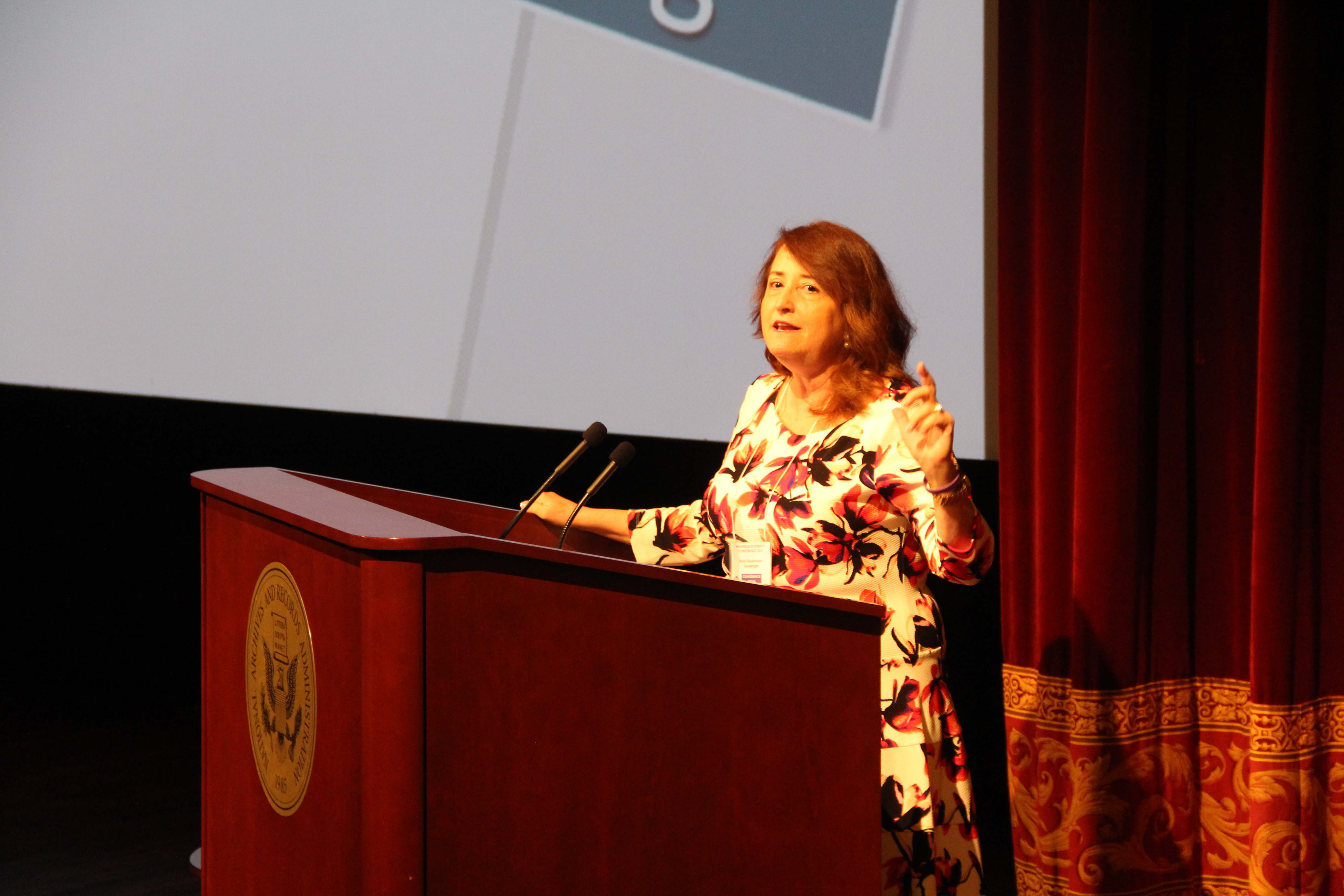 Wikimedia Diversity Conference 2016